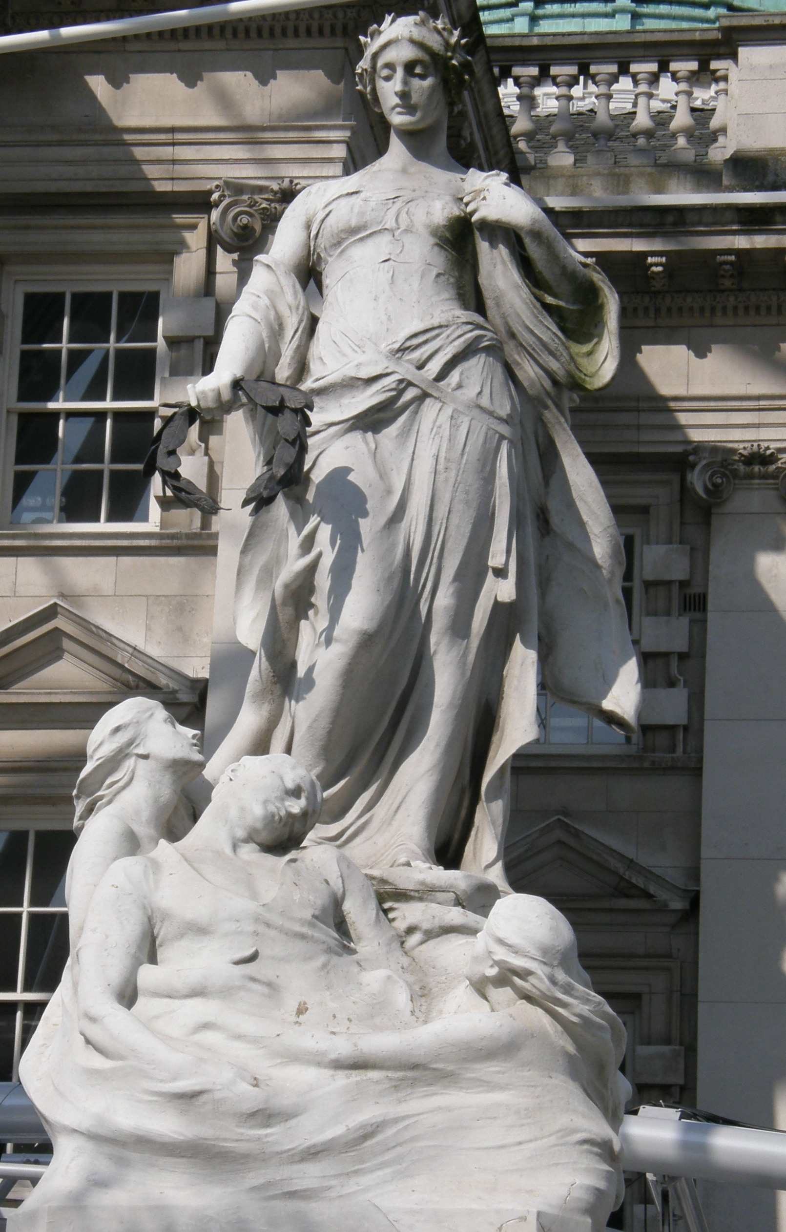 The Titanic Memorial, Belfast City Hall